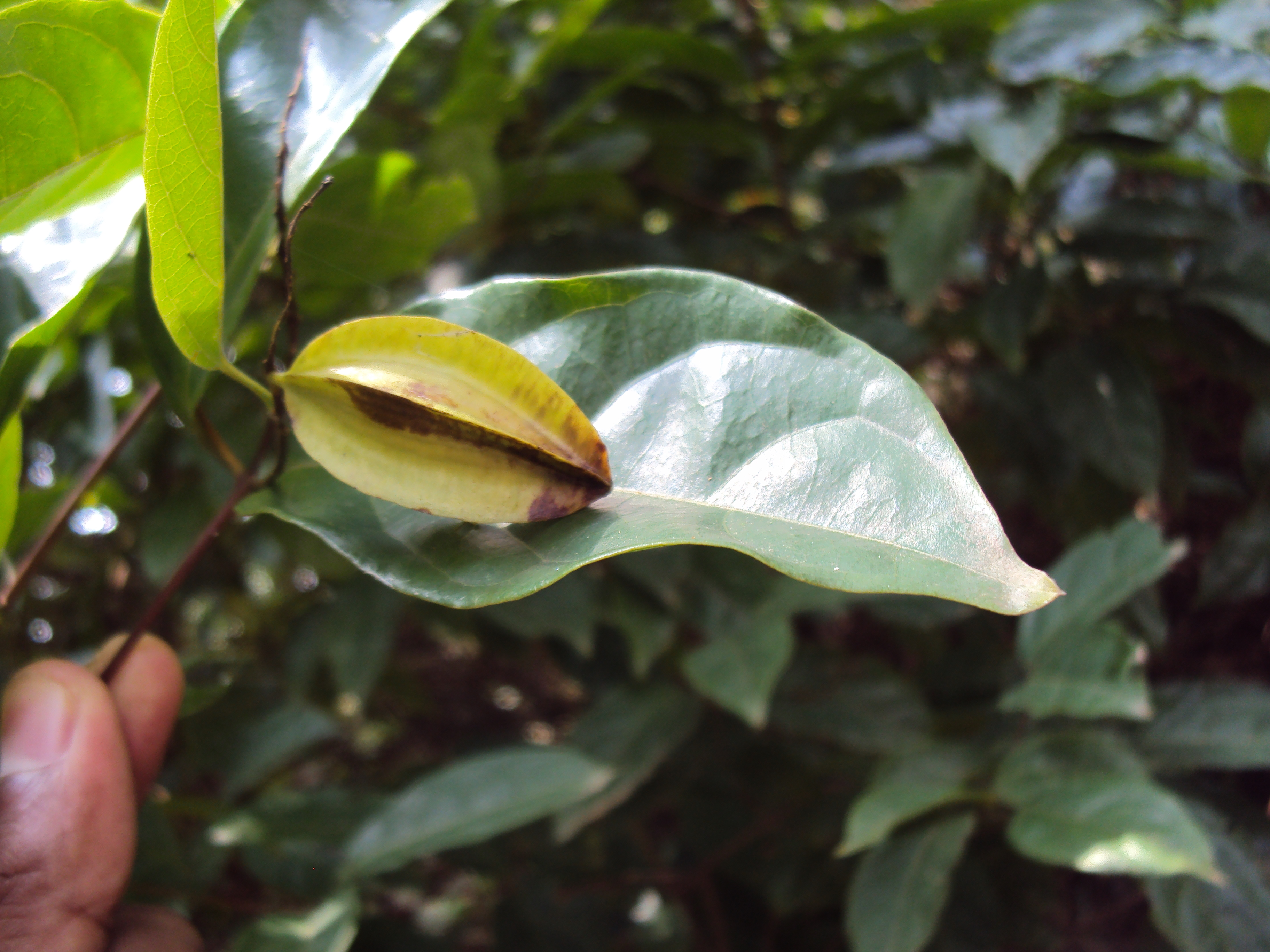 Quisqualis malabarica